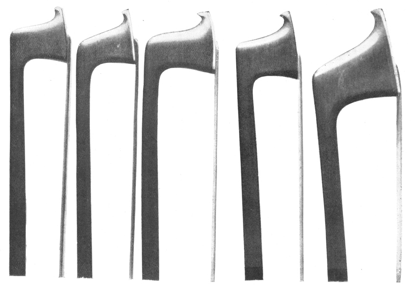 Union of theese tqwo files: File:Two violin and one viola bow by J Dodd.jpg and File:Viola and cello bow by J Dodd.jpg